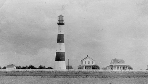 Point Bolivar Light This image or file is a work of a United States Coast Guard service personnel or employee, taken or made as part of that person's official duties. As a work of the U.S. federal government, the image or file is in the public domain (17 U.S.C. § 101 and § 105, USCG main privacy policy and specific privacy policy for its imagery server). Object location29° 22′ 00″ N, 94° 46′ 00″ W